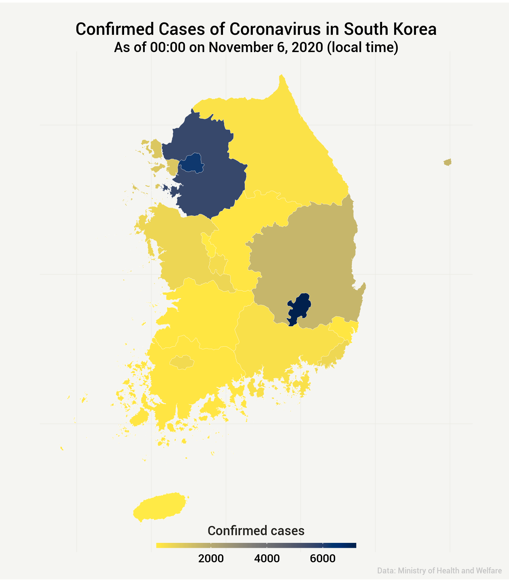 Confirmed cases of coronavirus in South Korea as of 00:00 on August 29, 2020 (local time) according to the Ministry of Health and Welfare of South Korea (